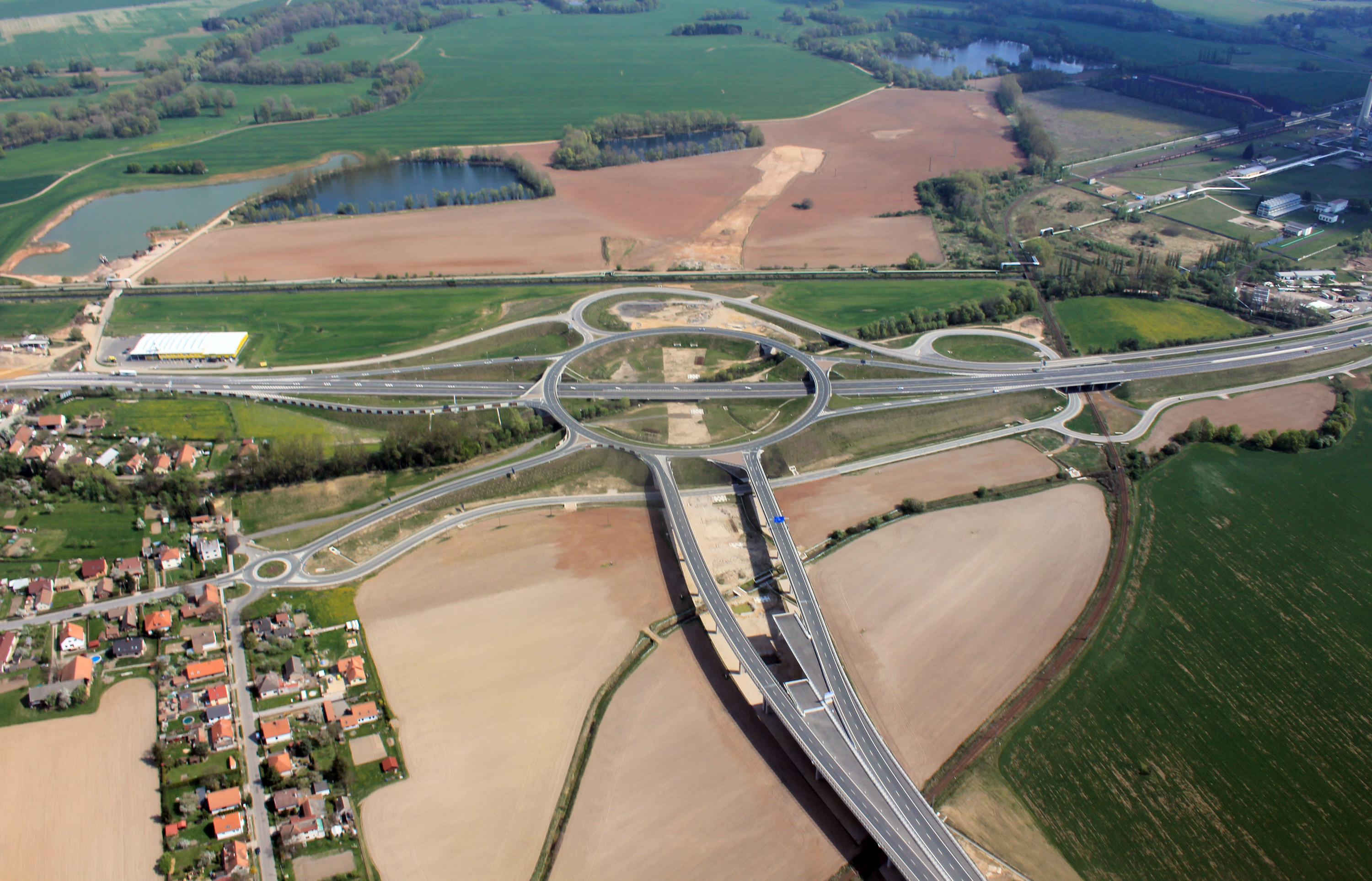 Motorway junction with roundabout near Opatovice nad Labem from air, eastern Bohemia, Czech Republic